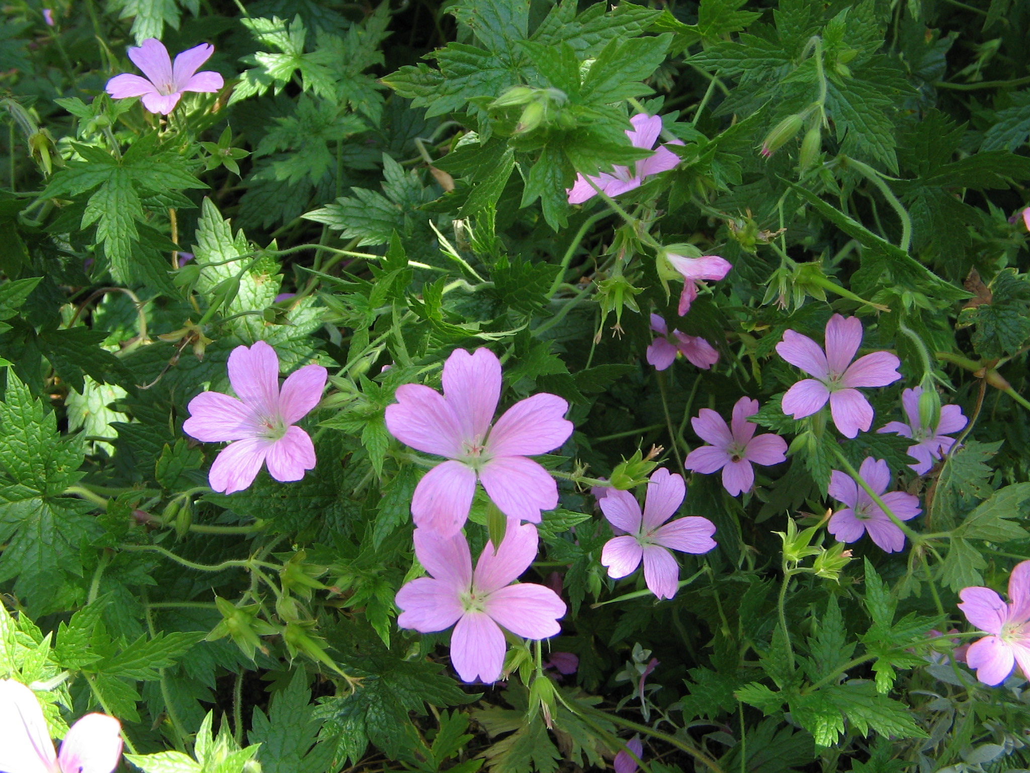 Geranium endressii